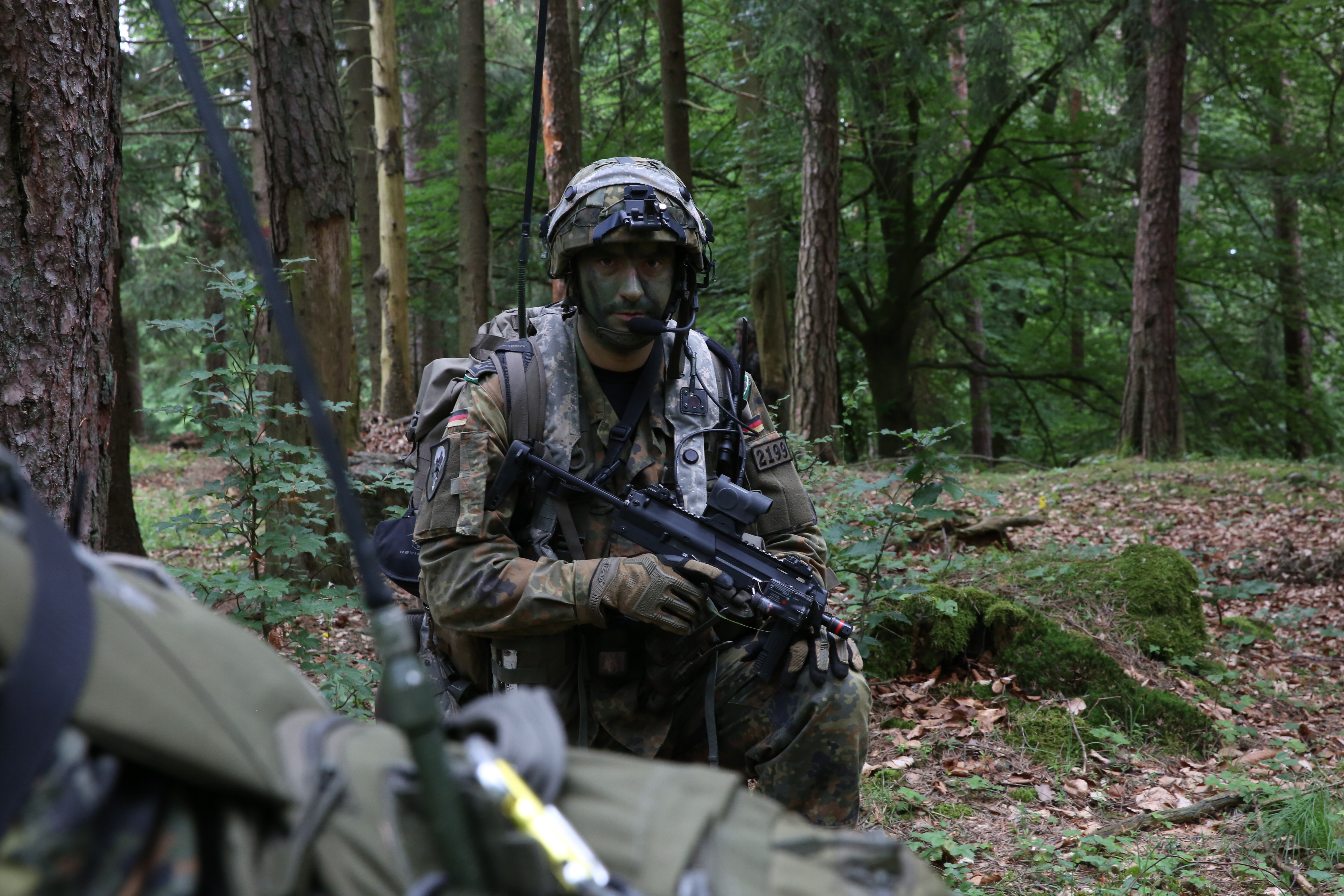 A German Bundeswehr soldier of 4th Paratrooper Company, 31st Paratrooper Regiment, provides security while conducting a dismounted patrol during Swift Response 16 training exercise at the Hohenfels Training Area, a part of the Joint Multinational Readiness Center, in Hohenfels, Germany, Jun. 21, 2016. Exercise Swift Response is one of the premier military crisis response training events for multi-national airborne forces in the world. The exercise is designed to enhance the readiness of the combat core of the U.S. Global Response Force – currently the 82nd Airborne Division’s 1st Brigade Combat Team – to conduct rapid-response, joint-forcible entry and follow-on operations alongside Allied high-readiness forces in Europe. Swift Response 16 includes more than 5,000 Soldiers and Airmen from Belgium, France, Germany, Great Britain, Italy, the Netherlands, Poland, Portugal, Spain and the United States and takes place in Poland and Germany, May 27-June 26, 2016.